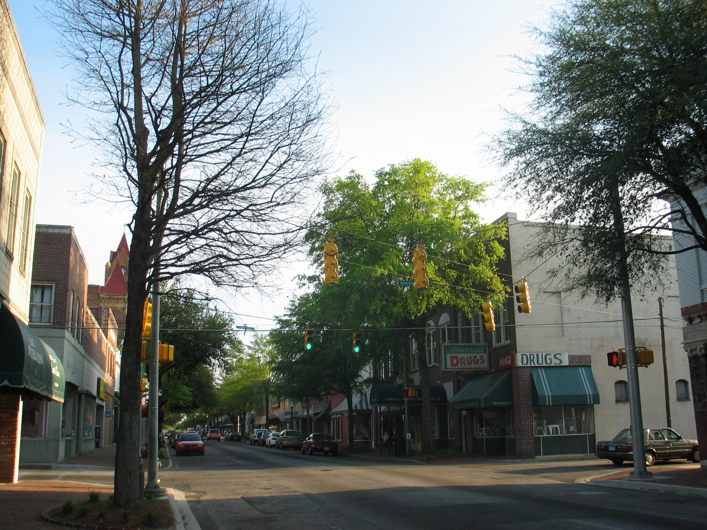 This image shows the North Main Street of Sumter, SC